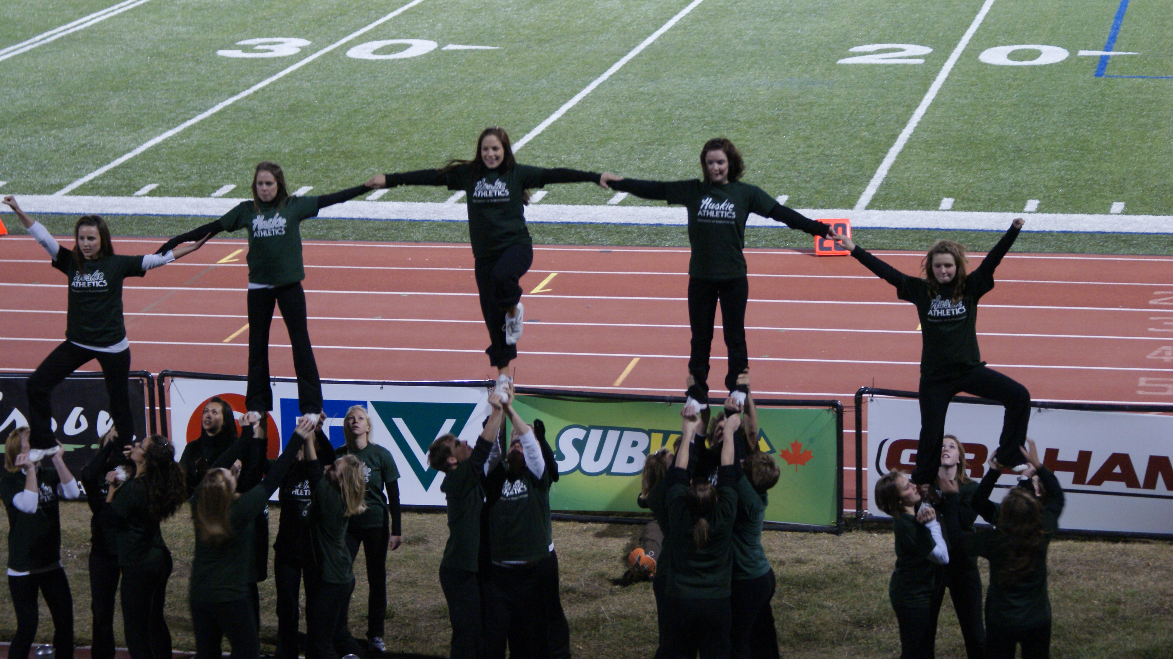 Husky cheerleaders at University of Saskatchewan Huskies football Oct 4, 2008 CIS football game between Huskies and the University of BC Thunderbirds at PotashCorp Park Saskatoon